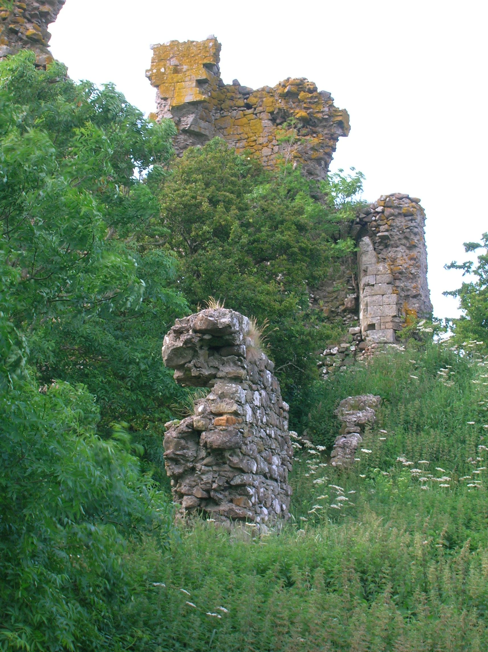 Craigie Cstle from the North-East. Keep and entrance pend. Craigie village, Riccarton, East Ayrshire, Scotland.